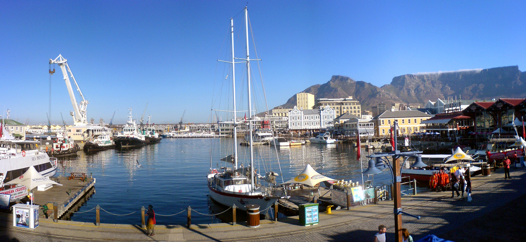 A panoramic view over the Victoria Basin at the V&A Waterfront